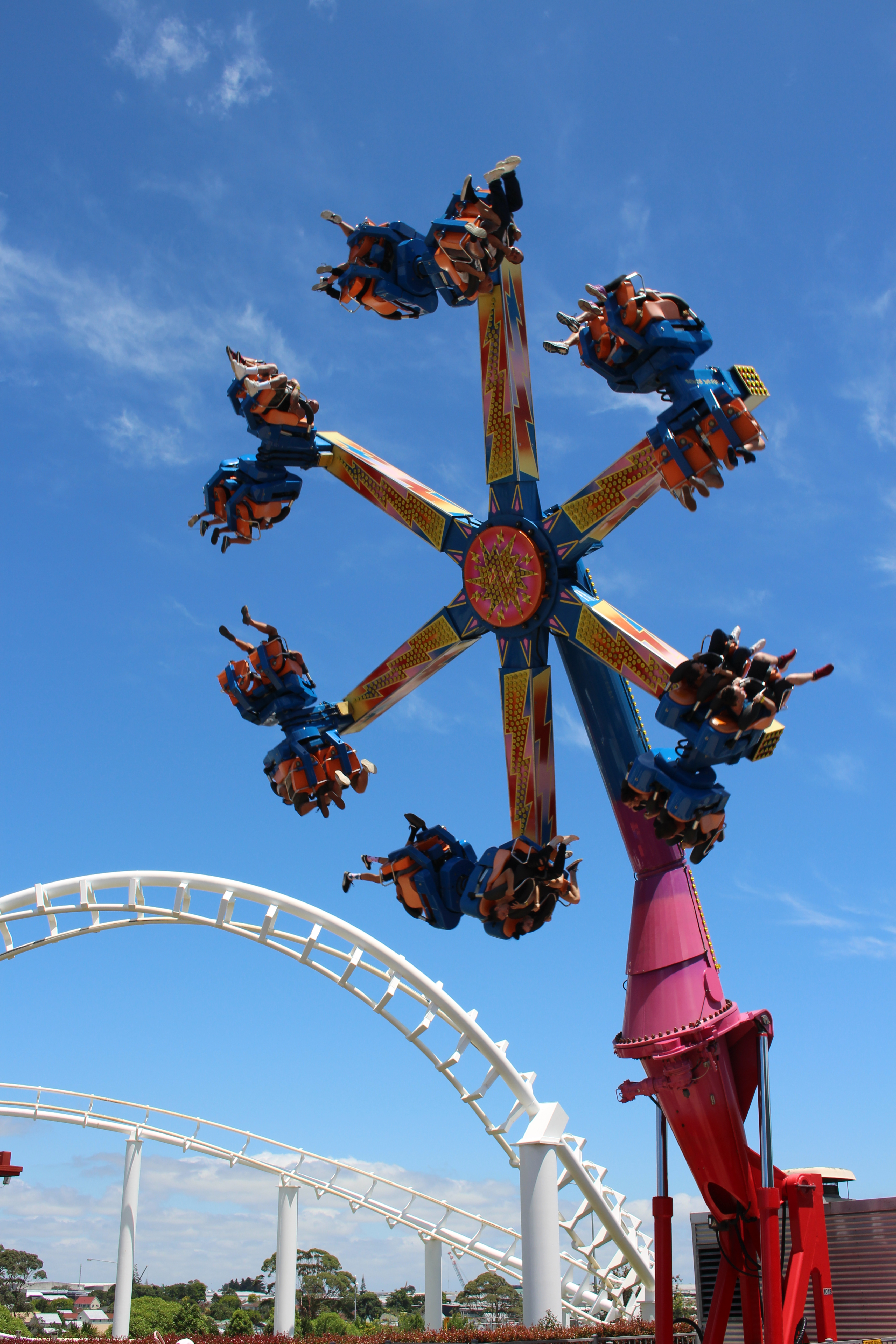 Rainbow's End Power Surge